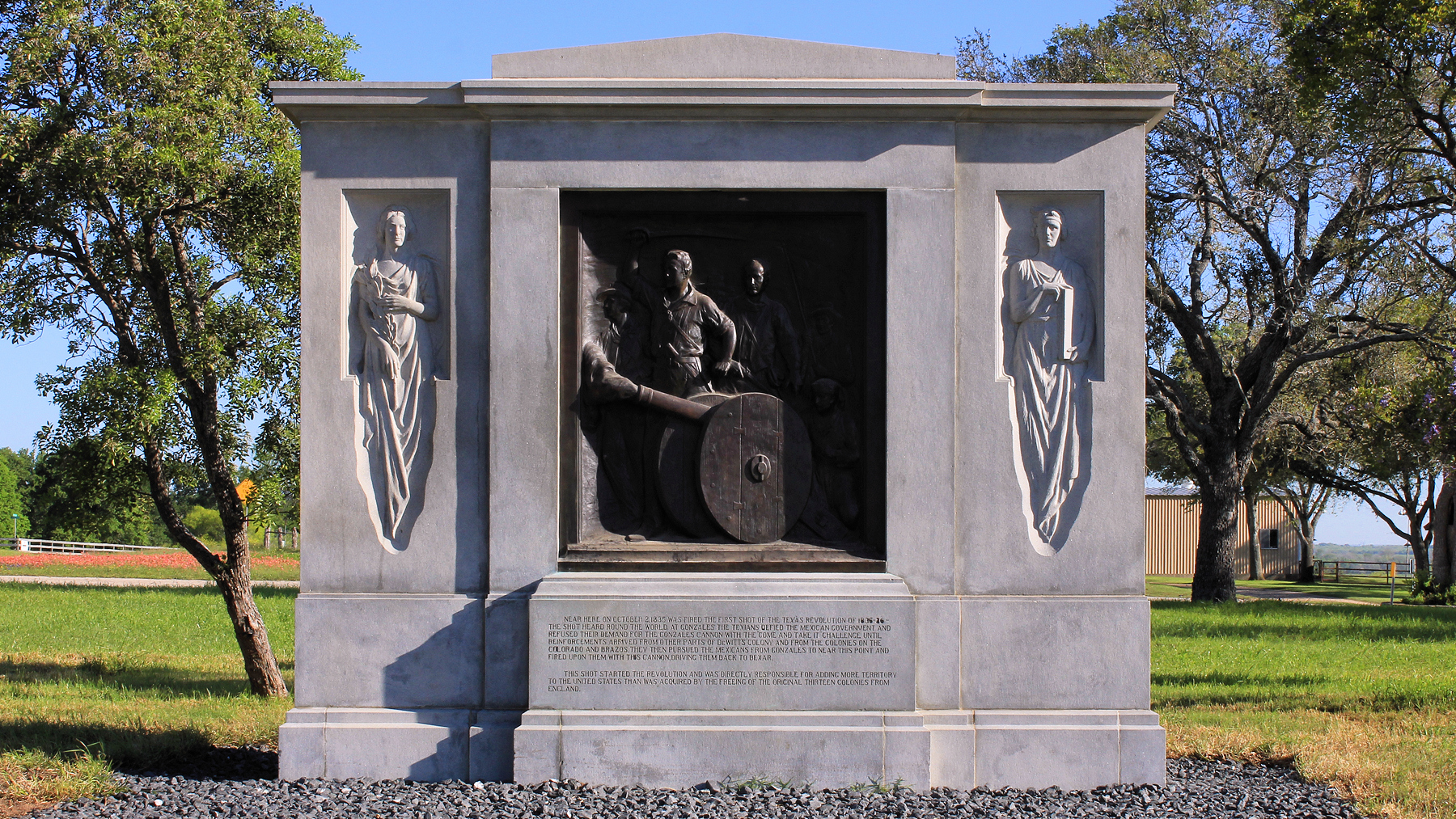 First Shot of Texas Revolution Texas centennial monument near Gonzales, Texas, United States. Waldine Tauch sculpted the bronze plaque and the the carved figues.